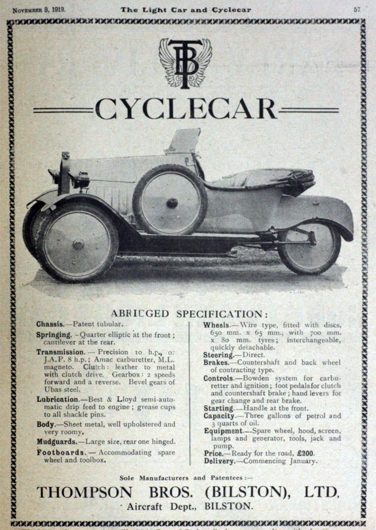 T.B. - Advert for three wheeled cyclecare from Thomson Brothers 1919-24